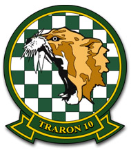 Official US Navy logo, from the official US Navy web site for VT-10 [Training Squadron 10]. image, as well as the official site are in the public domain as they were made by a US Government agency, not subject to copyright.Bondo 18:00, 30 October 2006 (UTC)